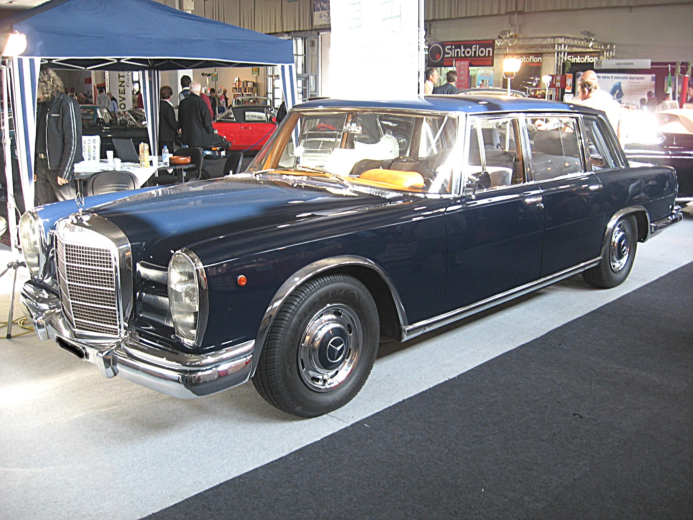 Subject: Mercedes-Benz 600(W100) Date:October 26th, 2008 Event: Auto e Moto d'Epoca 2008 Place/Country: Padova, Italy I release all rights in the public domain.